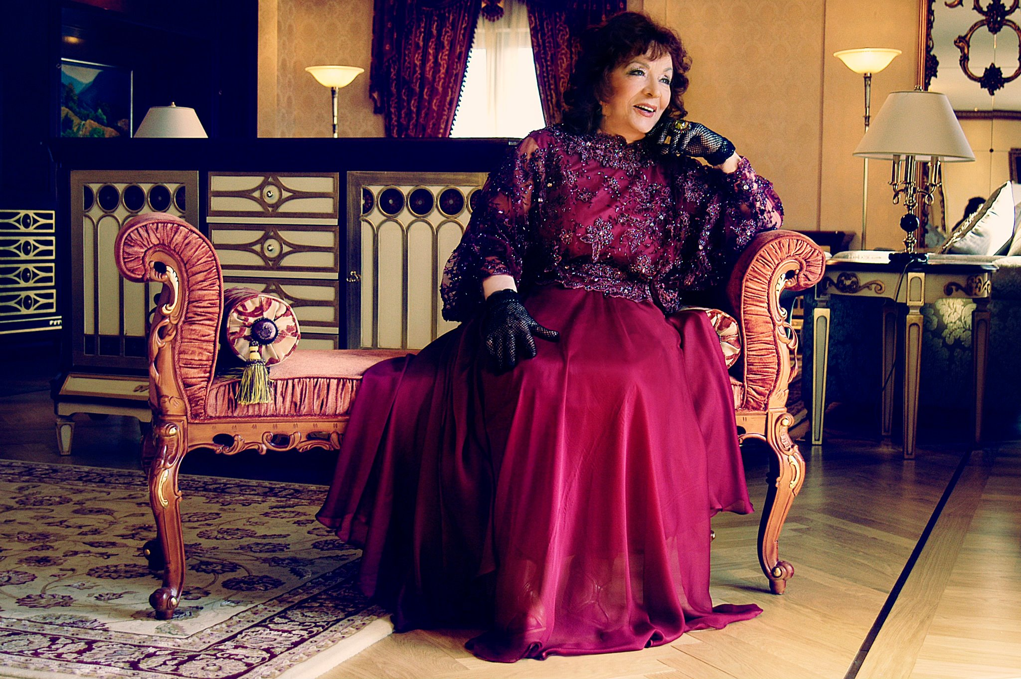 Artistic Director of the high fashion show “Gogh” Photo discription: Promotional image, Albanian diva Mrs. Nexhmije Pagarusha. Fashion designer: Blerina Kllokoqi Rugova Brand: BKR Model: Mrs. Nexhmije Pagarusha Photographer: Shenoll Zehri